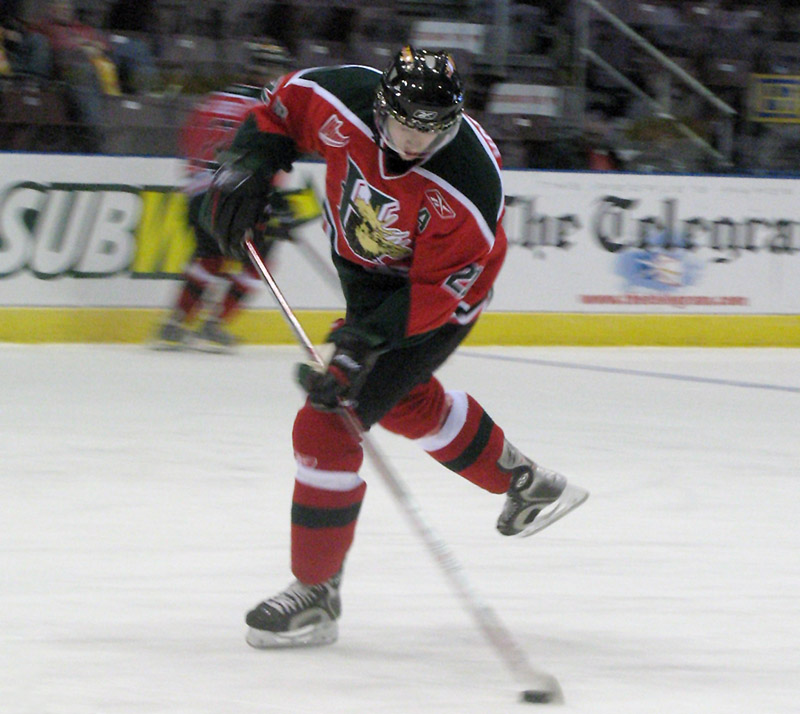 Jakub Voracek of the Halifax Mooseheads playing against the St. John's Fog Devils